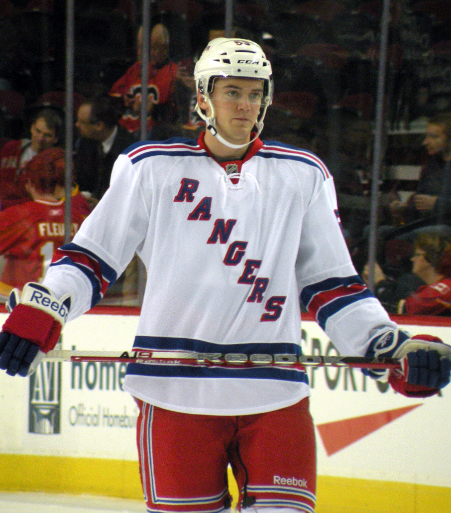 New York Rangers defenceman Tim Erixon prior to a National Hockey League game against the Calgary Flames, in Calgary.